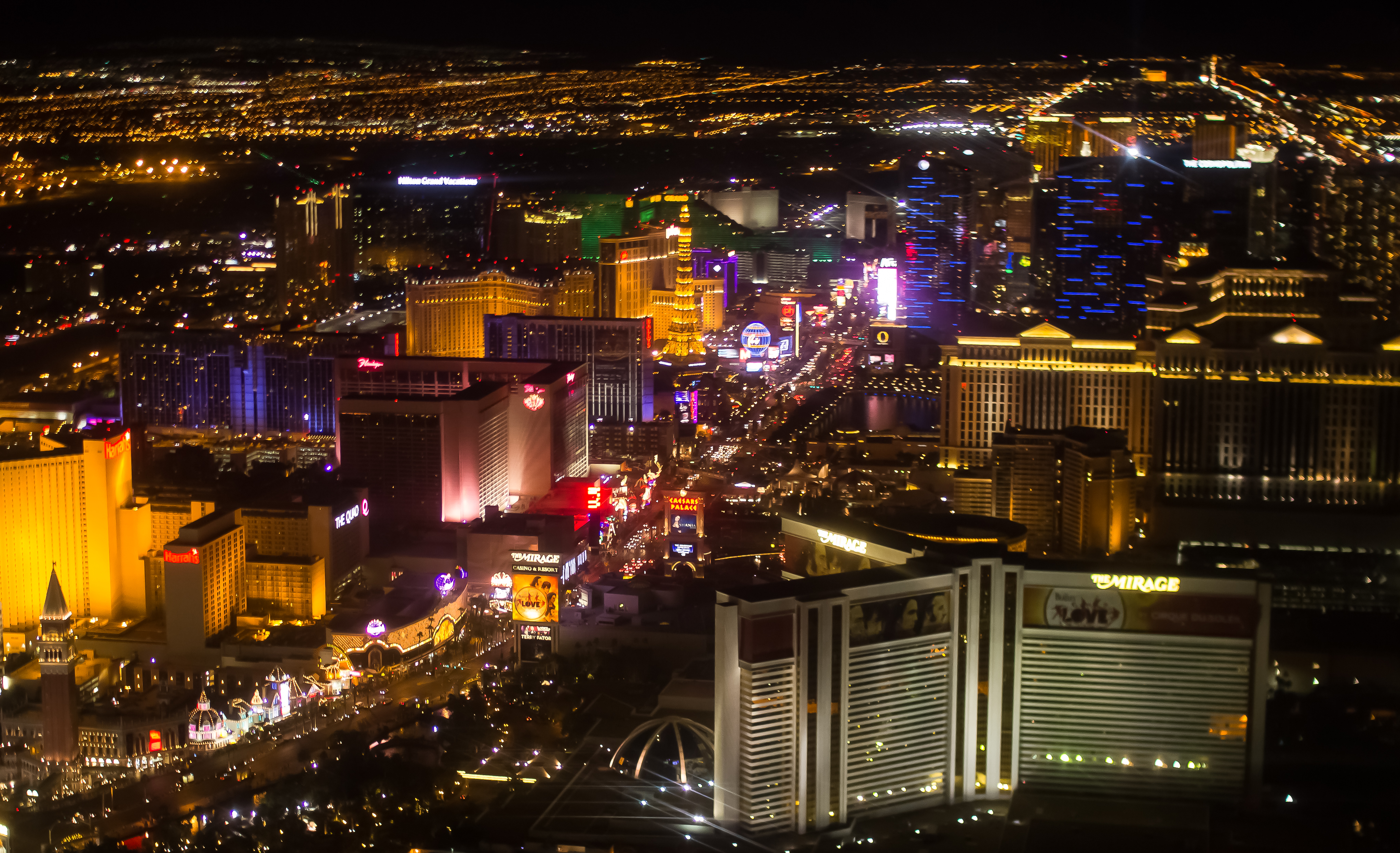 The Las Vegas Strip - helicopter view at night